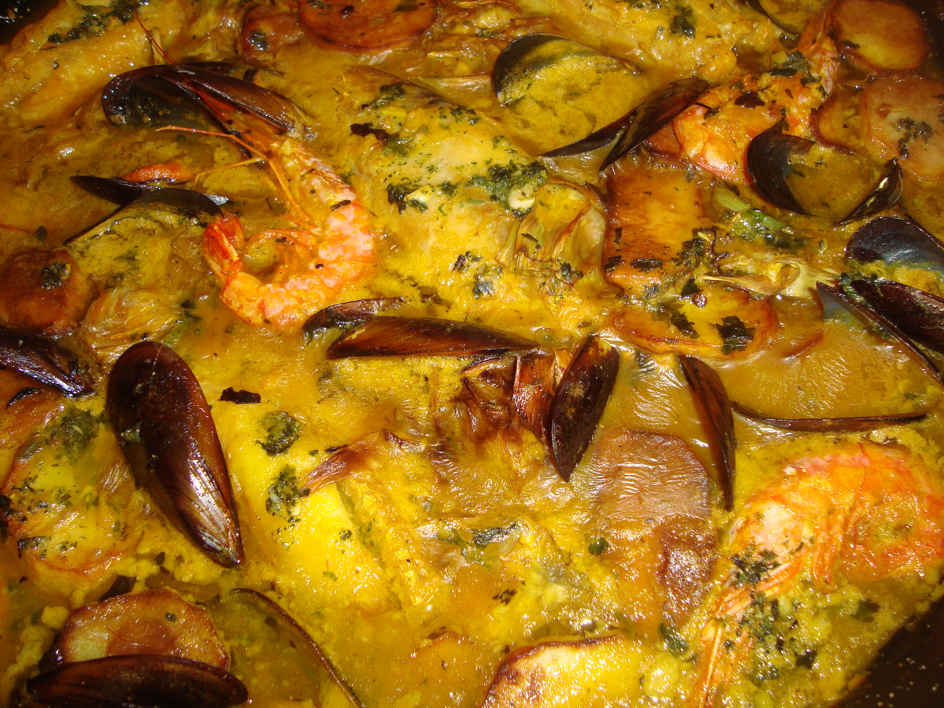 Sarsuela de peix i marisc